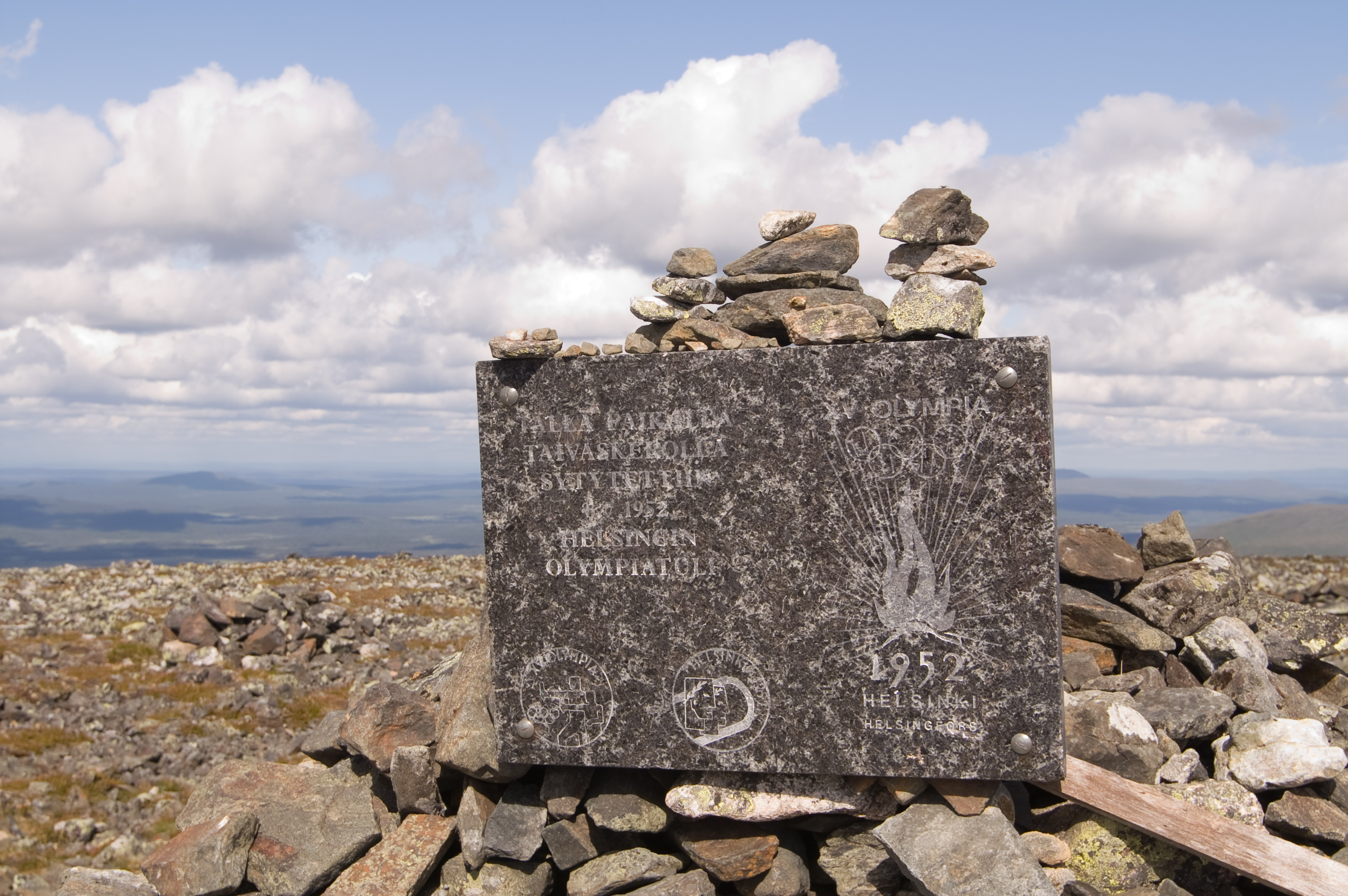 The flame was lit on the Taivaskero before the Olympic Games of Helsinki in 1952.